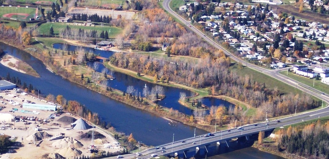 Aerial view of Bower Ponds area of Red Deer